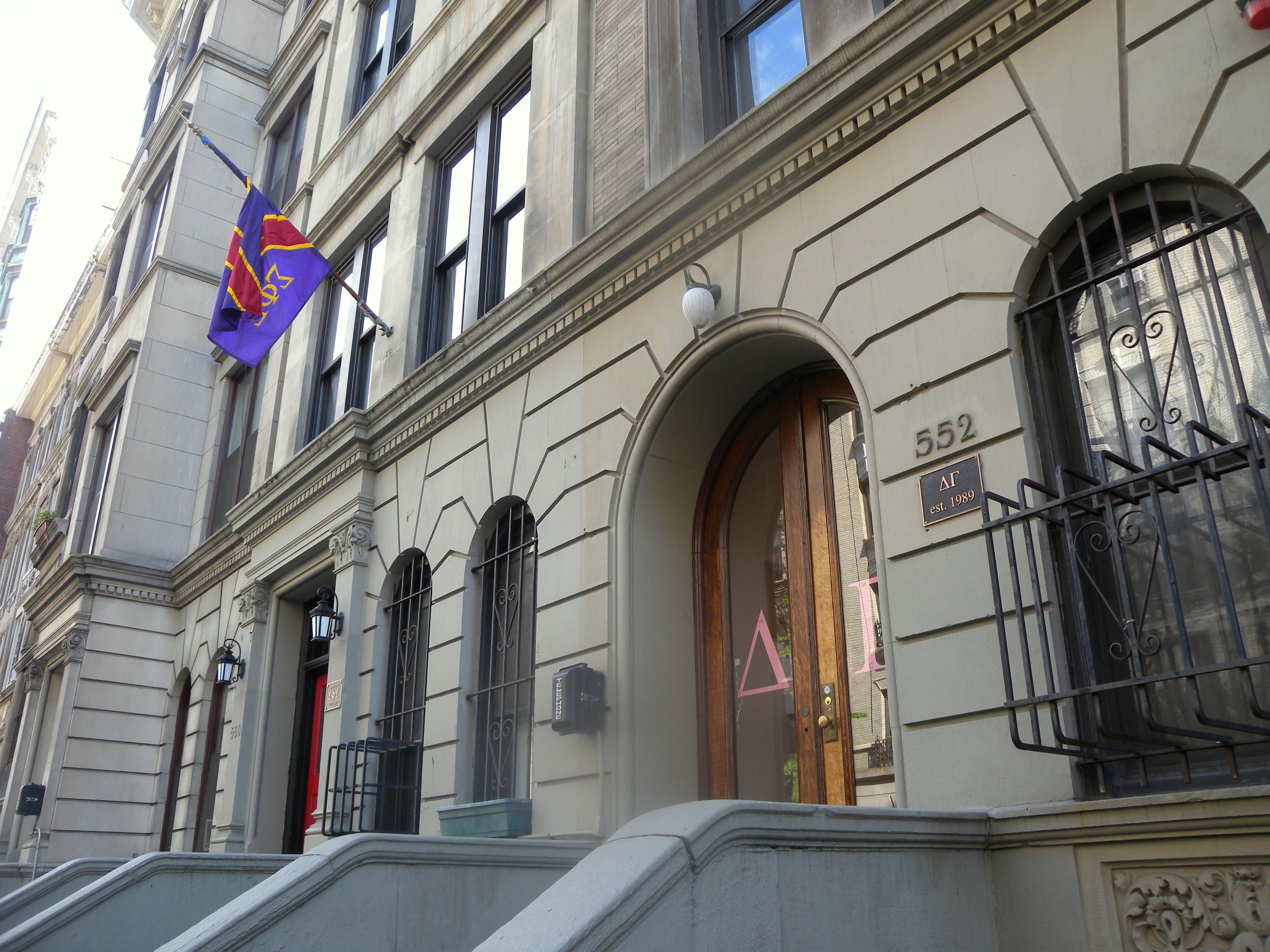 Looking south at Columbia's Delta Gamma house on a mostly sunny afternoon.